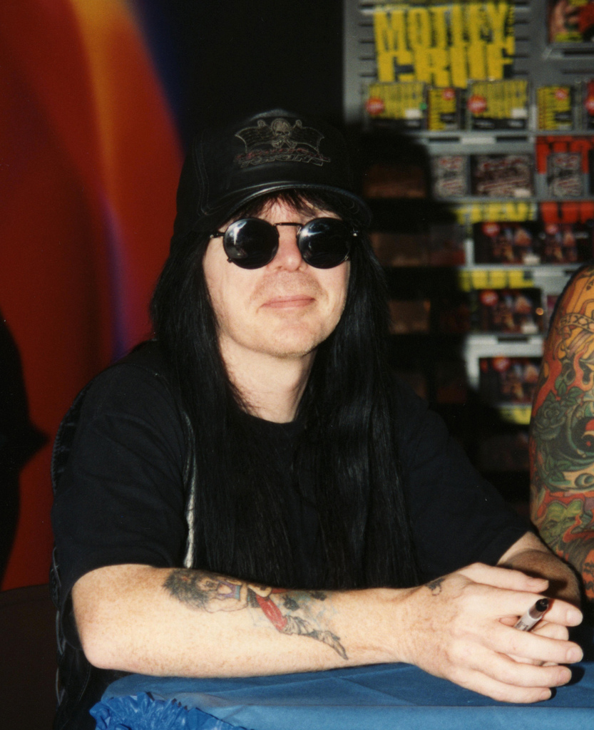 Mick Mars. Houston autograph signing.